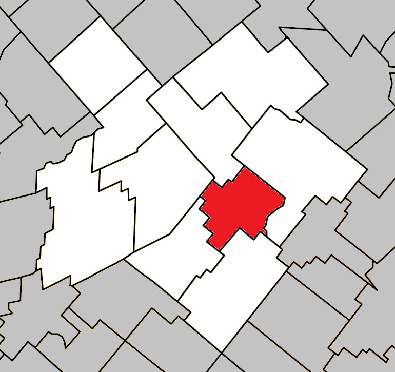 Location of Saint-Pierre-Baptiste, Quebec within L'Érable Regional County Municipality.